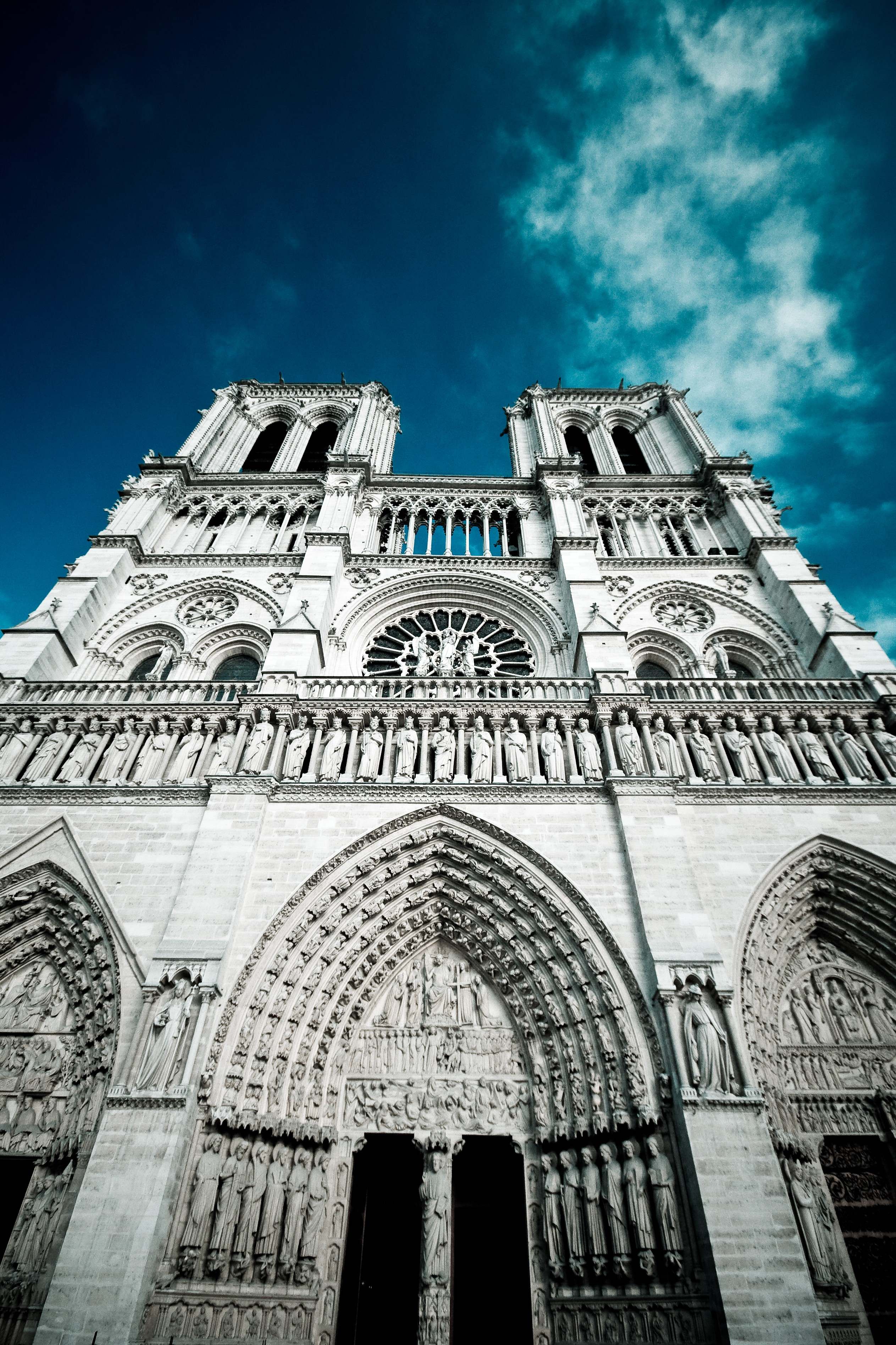 Cathédrale Notre-Dame de Paris